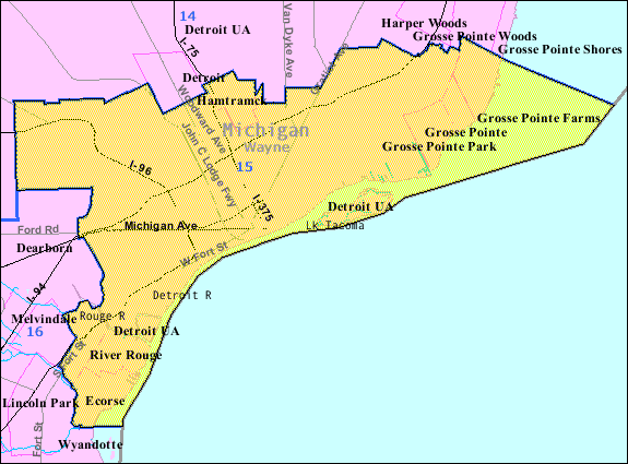 Map of Michigan's 15th congressional district for the en:106th United States Congress, illustrating boundaries prior to redistricting in 2002.